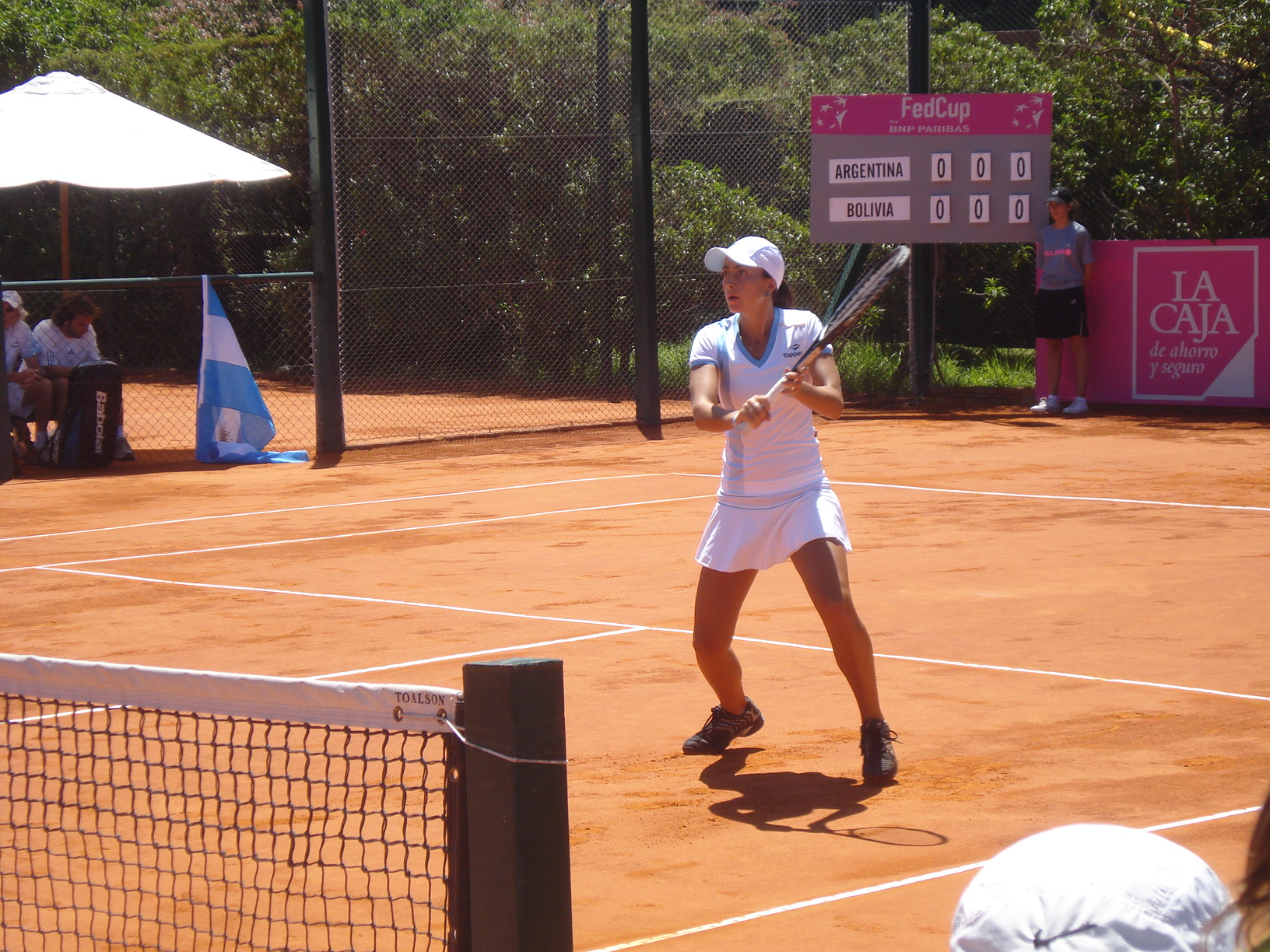 Mailen Auroux (Buenos Aires, Argentina, 1988), partnering Florencia Molinero, hitting a ball around before their match against María Fernanda Álvarez and María Paula Deheza, from Bolivia (Fed Cup 2011, Tenis Club Argentino).